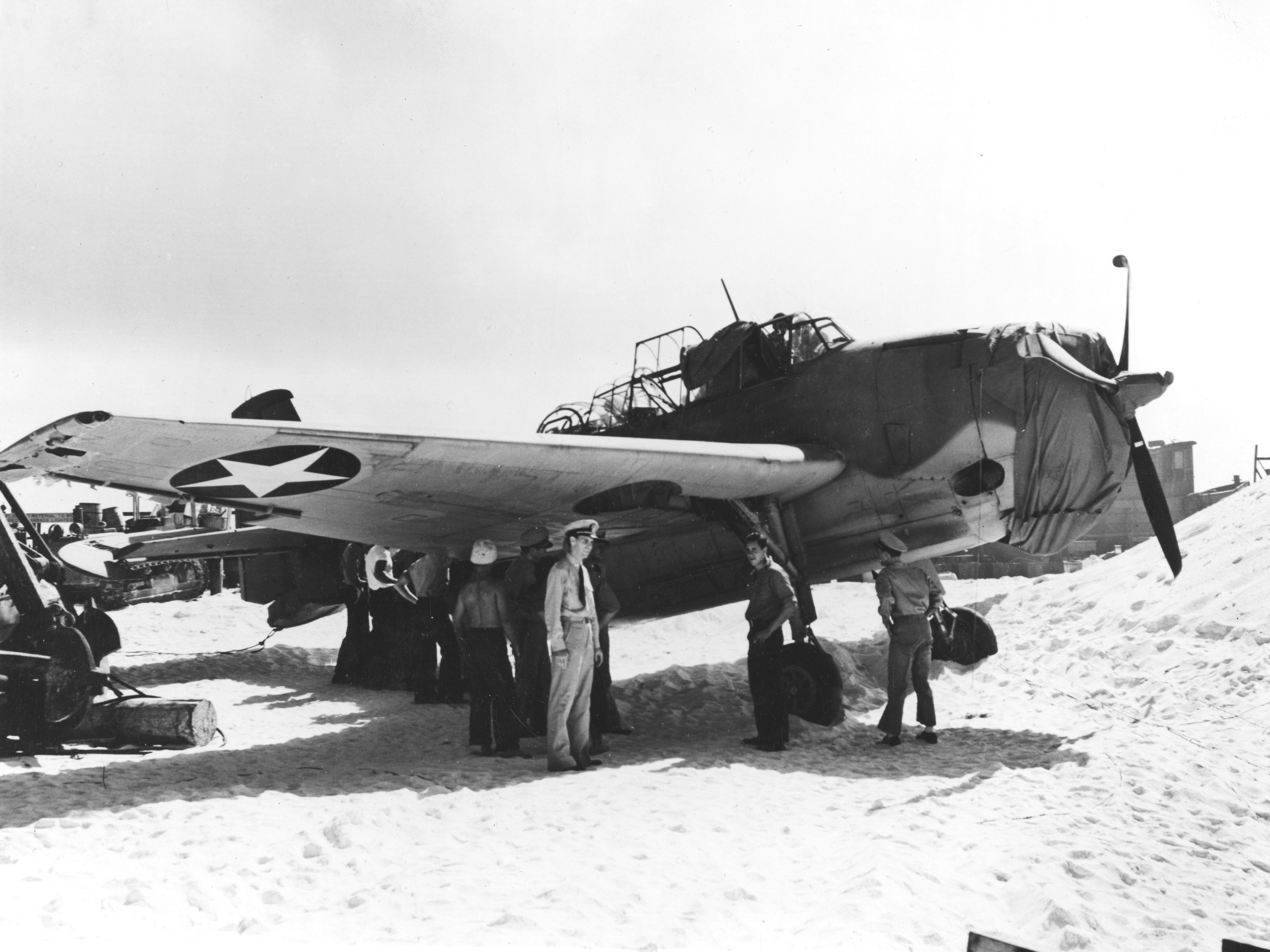 The sole surviving U.S. Navy Grumman TBF-1 Avenger (BuNo 00380, side number 8-T-1) of Torpedo Squadron 8 (VT-8) on Midway's Eastern island, shortly after the Battle of Midway, on 24 June 1942.